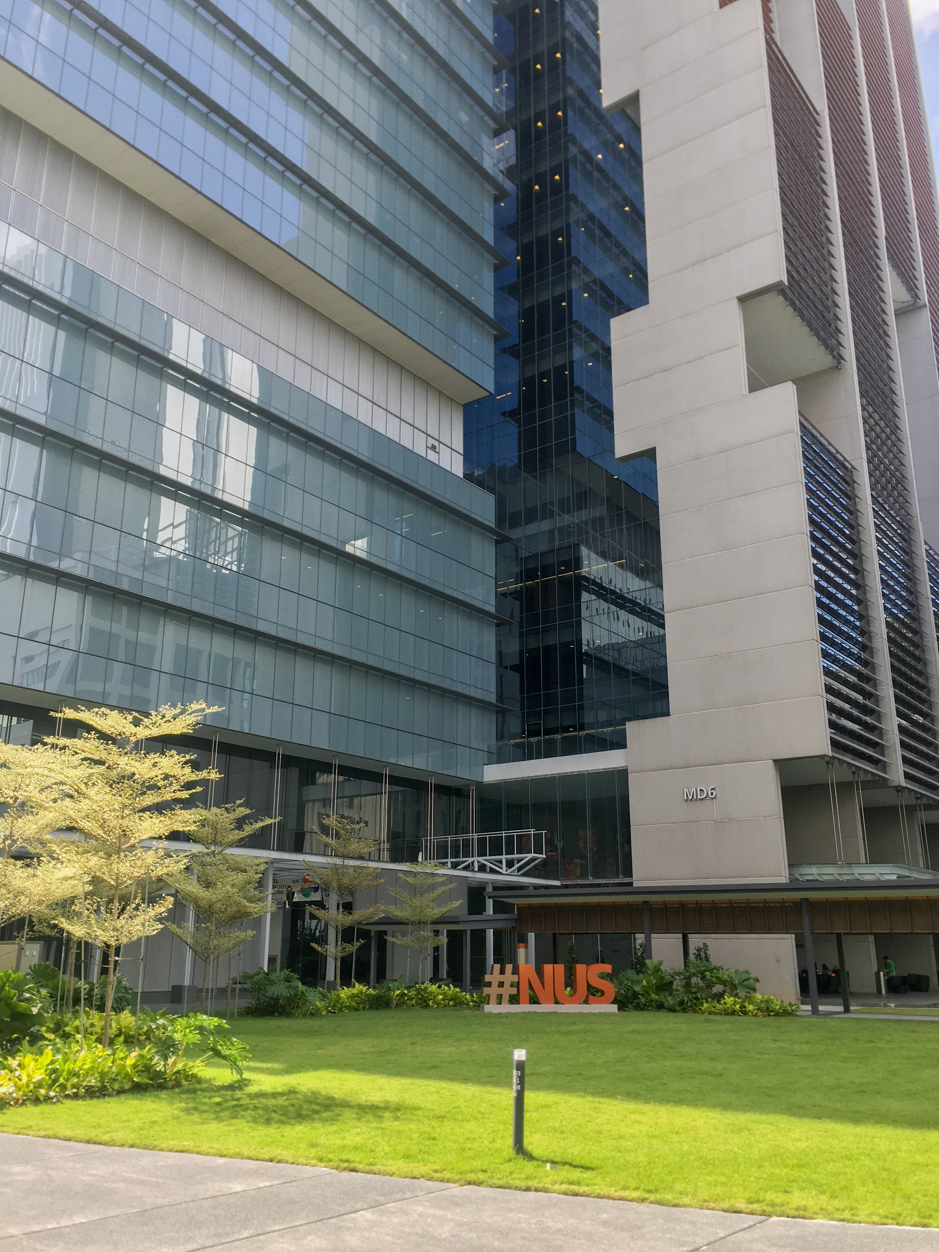 The newly renovated plaza beside MD6 at the Yong Loo Lin School of Medicine, National University of Singapore.